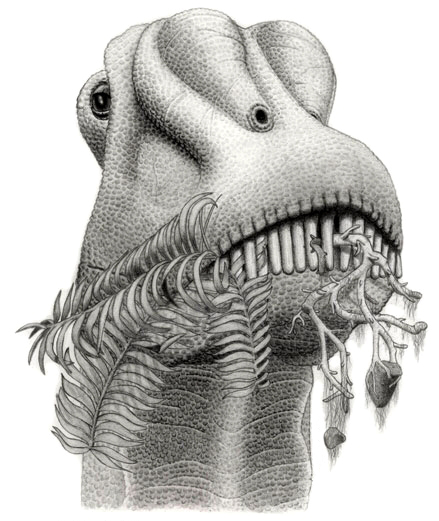 Sketch of a Diplodocid (Diplodocidae), a member of a taxon of sauropod Dinosaurs, while accidentally ingesting some stones (gastrolithes). Note: This piece was commissioned by Oliver Wings for his doctoral thesis on gastroliths.